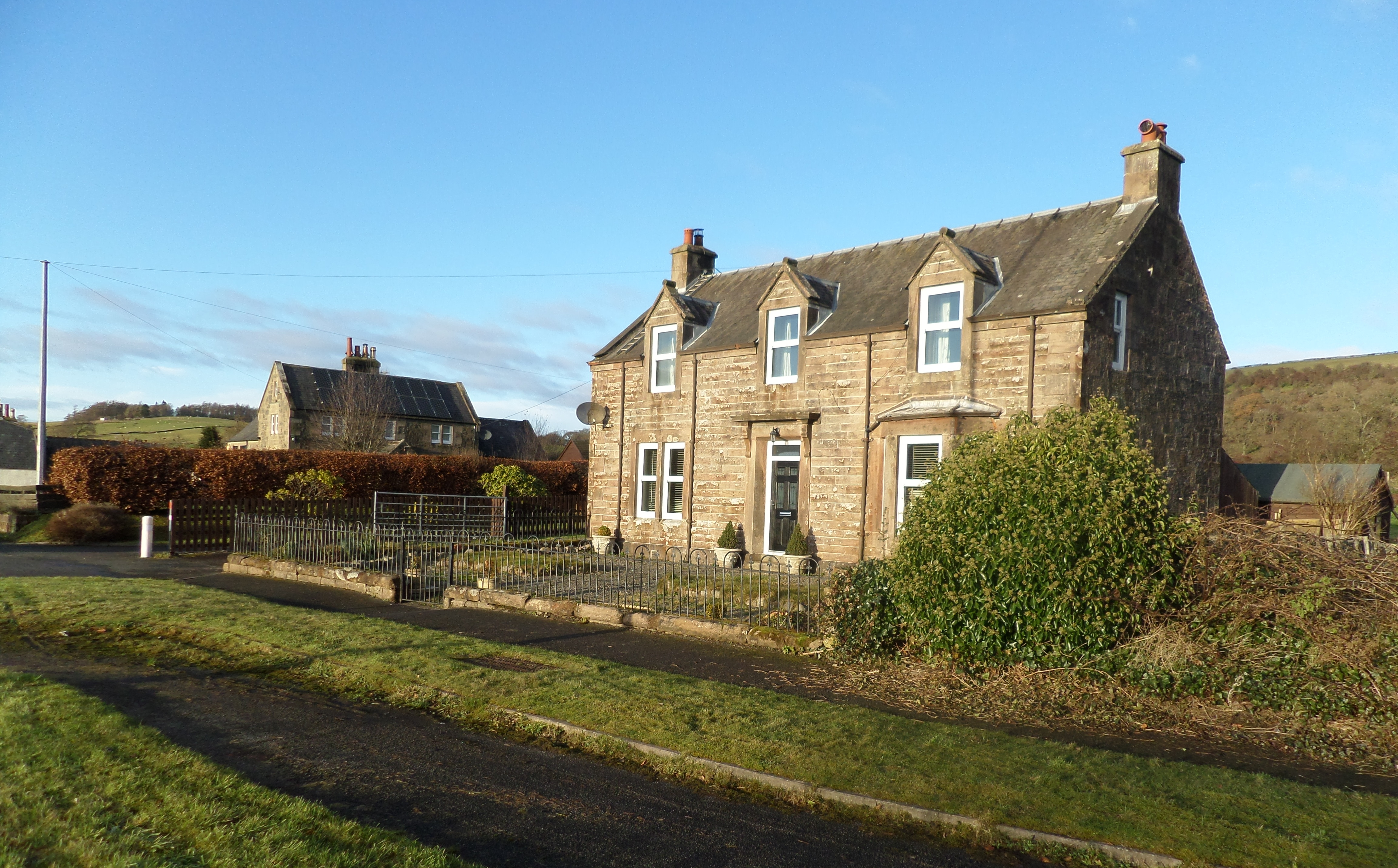 Mennock Village, Goods Depot entrance area, Nithsdale, Scotland